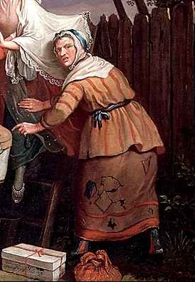 Modern Love:The Elopement, oil on canvas